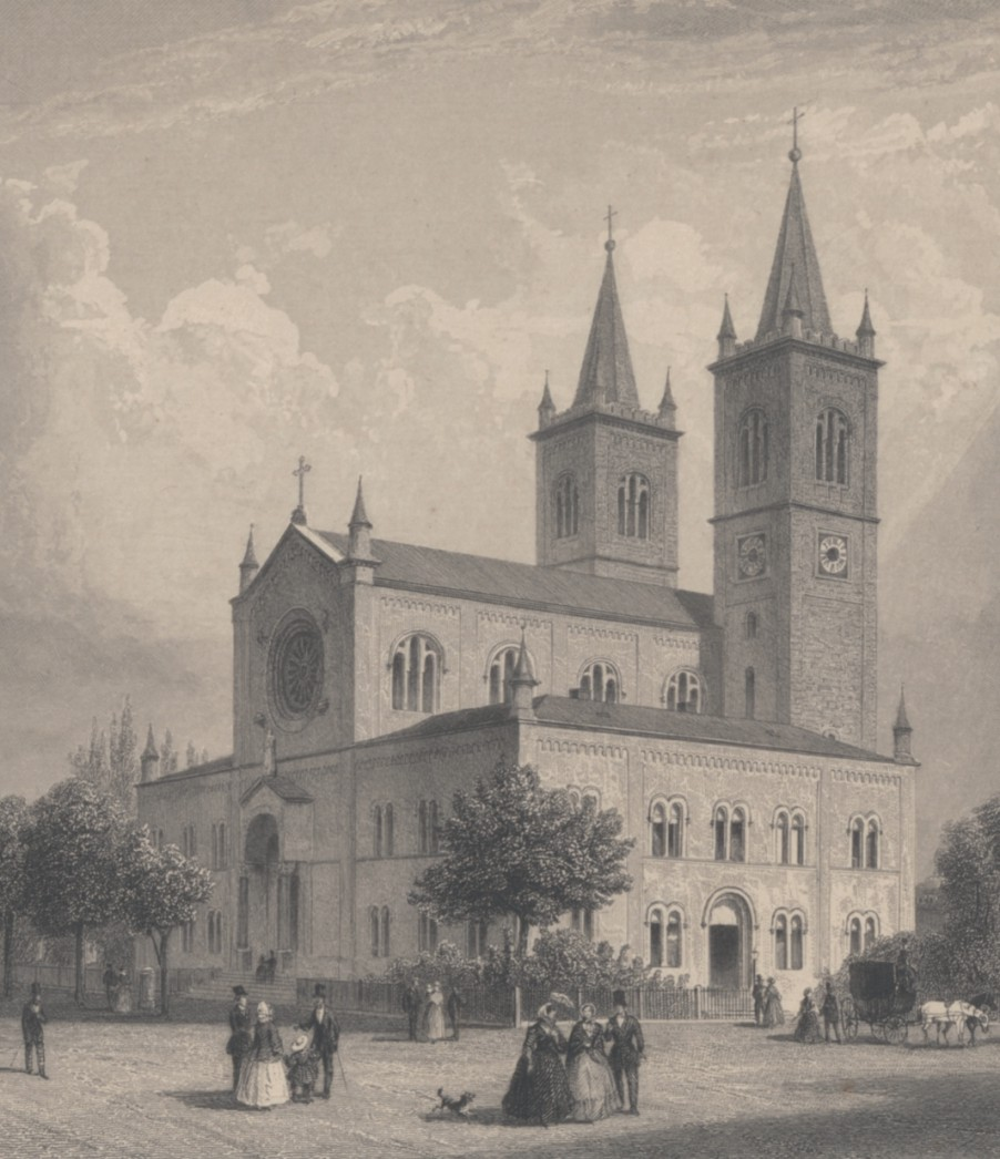 Catholic church St. Franziskus Xaverius, Dresden-Neustadt, built 1853, destroyed 1945 (steel engraving)